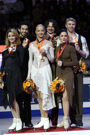 The ice dancing podium at the 2007-2008 ISU Grand Prix Final. From left: Tanith Belbin / Benjamin Agosto (2nd), Oksana Domnina / Maxim Shabalin (1st), Isabelle Delobel / Olivier Schoenfelder (3rd).